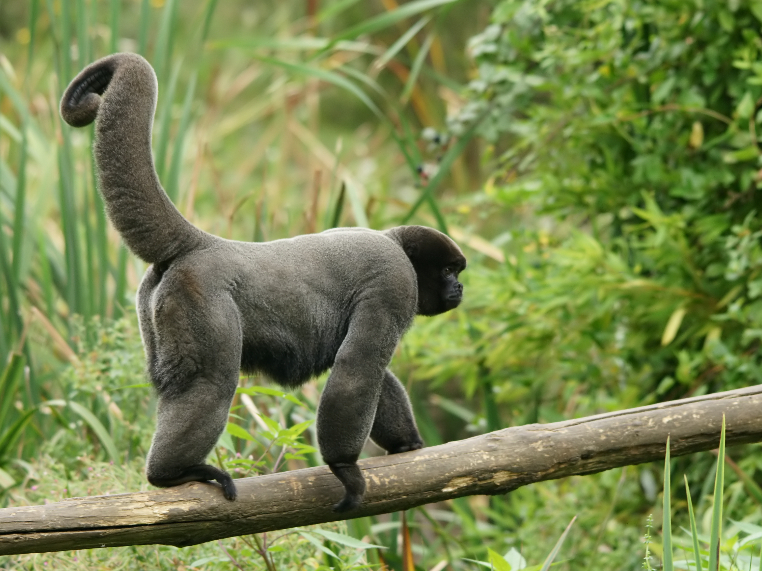 Male Brown Woolly Monkey at La Vallée de Singes, at Romagne (Vienne, Poitou-Charentes), France.